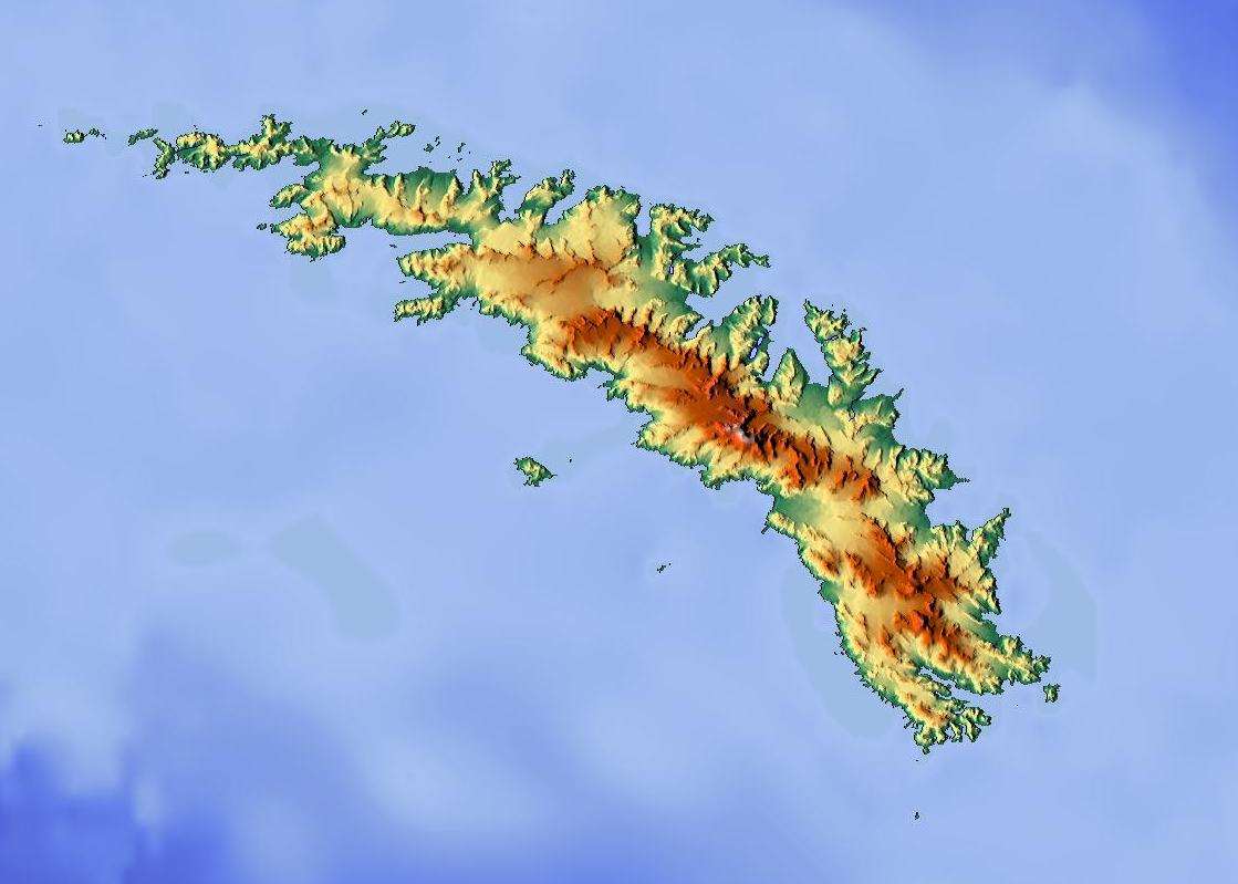 Map of South Georgia for pin Geographic limits of the map: N: -53.809° S: -55.085° W: -38.4° E: -35.327°